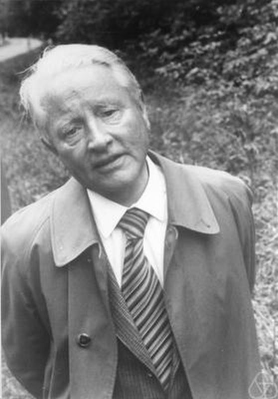 Wilhelm Maak, 1982 in Göttingen